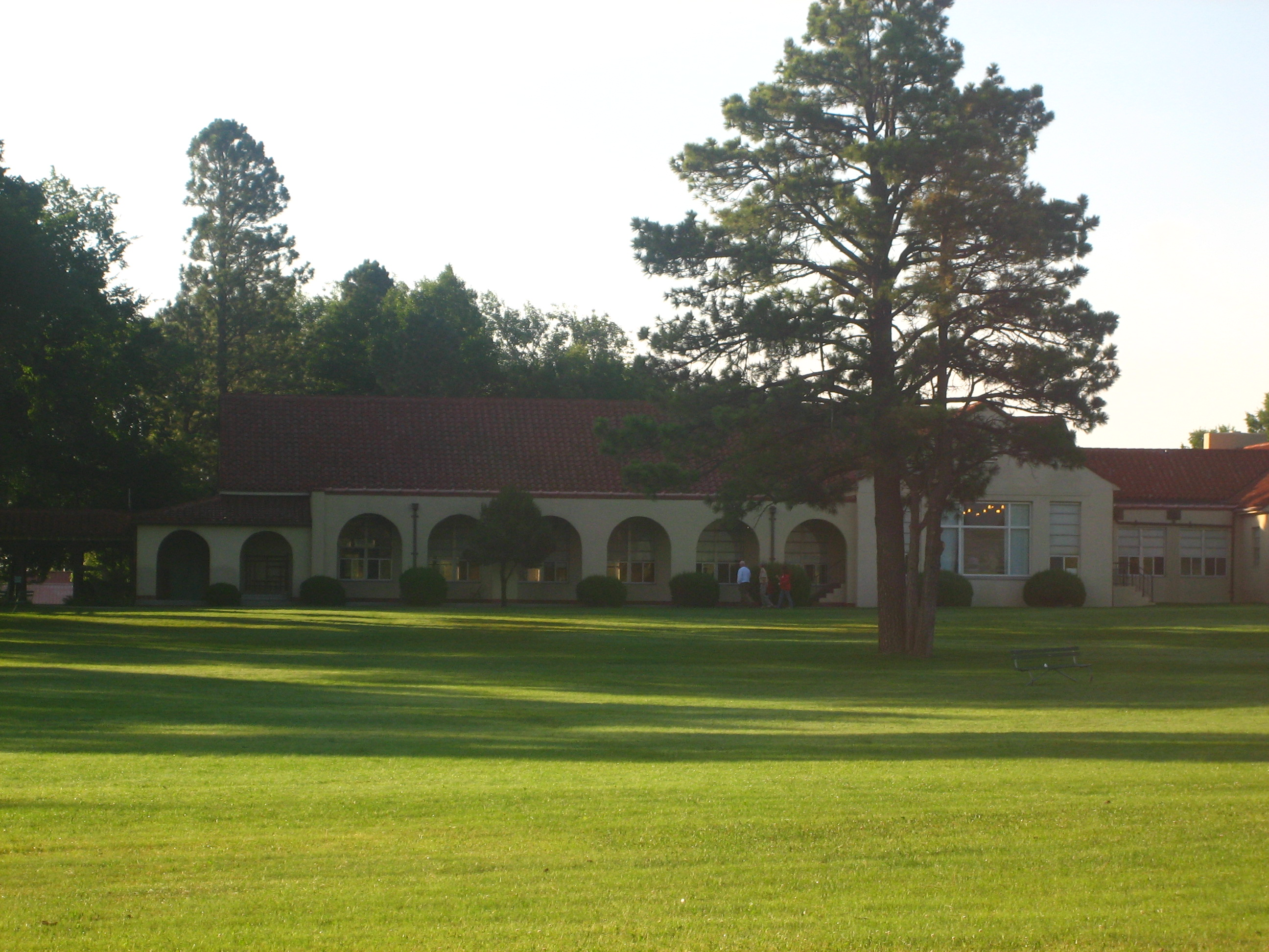 I took photo on July 14, 2008.Billy Hathorn (talk) 19:07, 19 September 2008 (UTC)